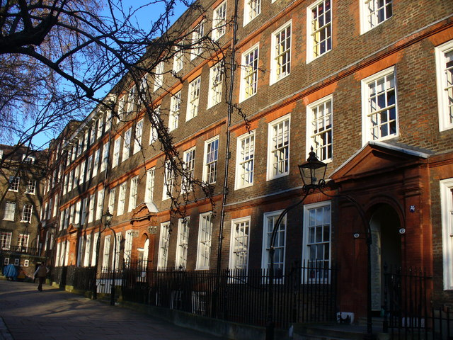 King's Bench Walk, Inner Temple Grand red brick terrace, much of it designed by Sir Christopher Wren in 1677-8.